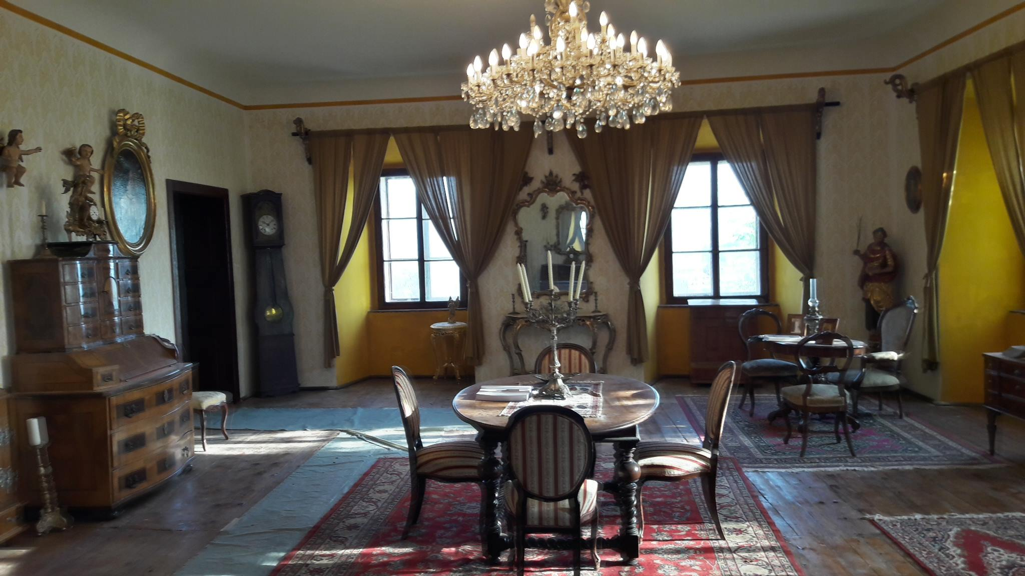 notranjost